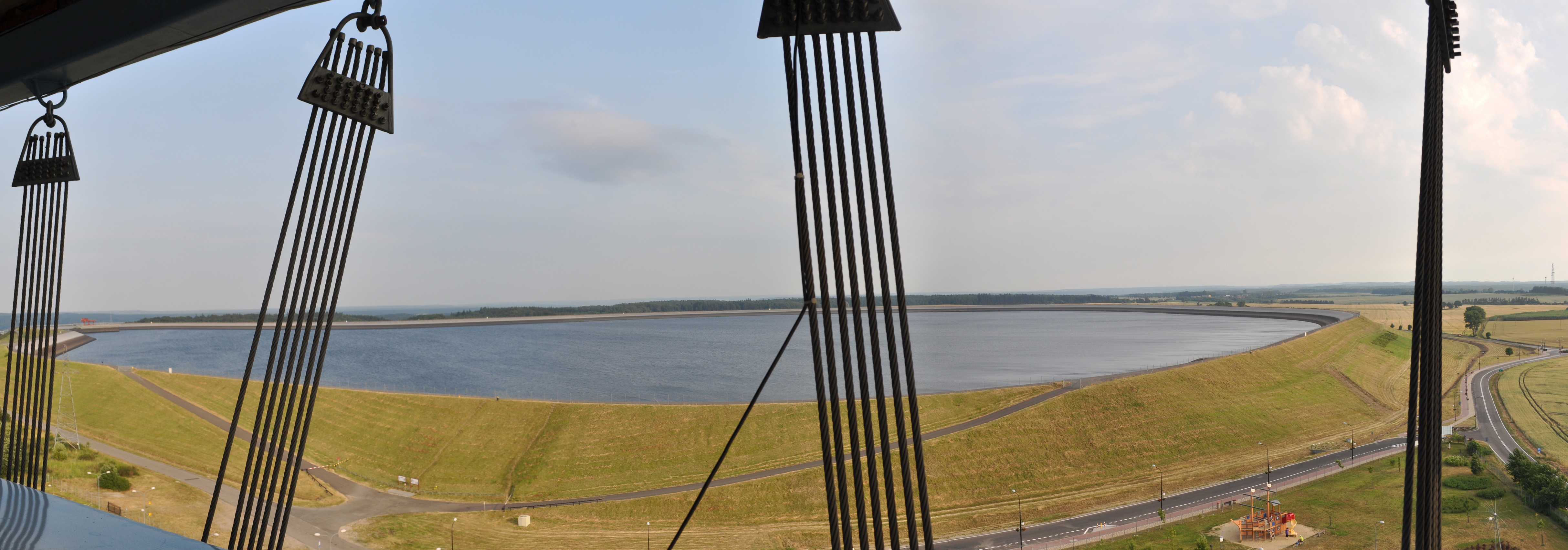 Upper reservoir of Żarnowiec pumped-storage station